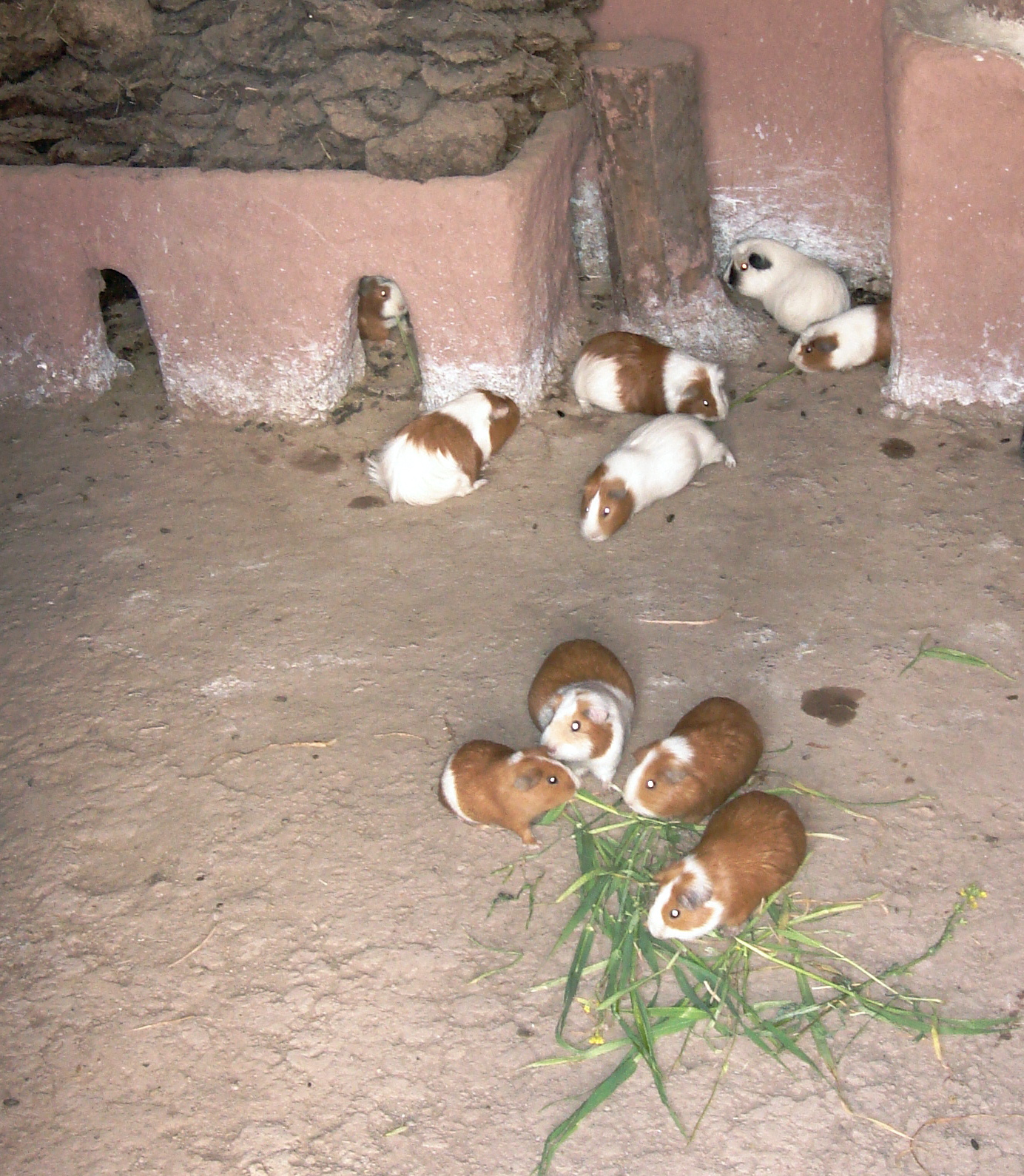 This is an edit of Description These guys were munching grass in the kitchen. Little did they know they'd be dinner, later. Date2 August 2006, 09:36SourceGuinea pigs in the kitchenAuthorMike & Amanda Knowles from Tacoma, WA, USA Licensing[edit]